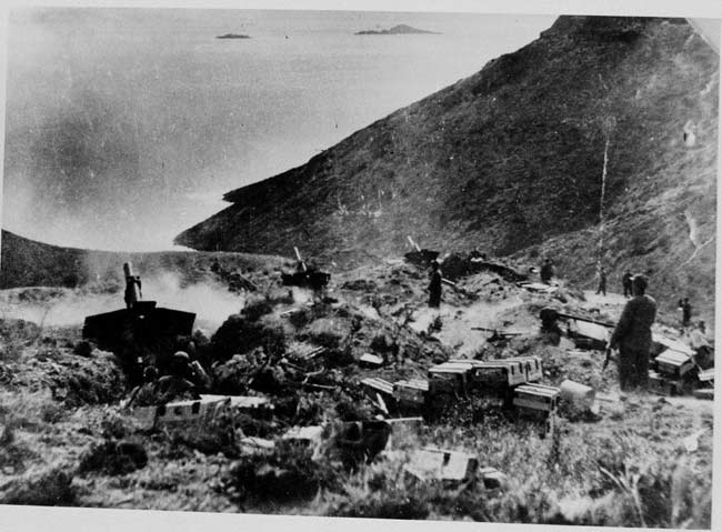 PLA artillery shelling Yijiangshan Island